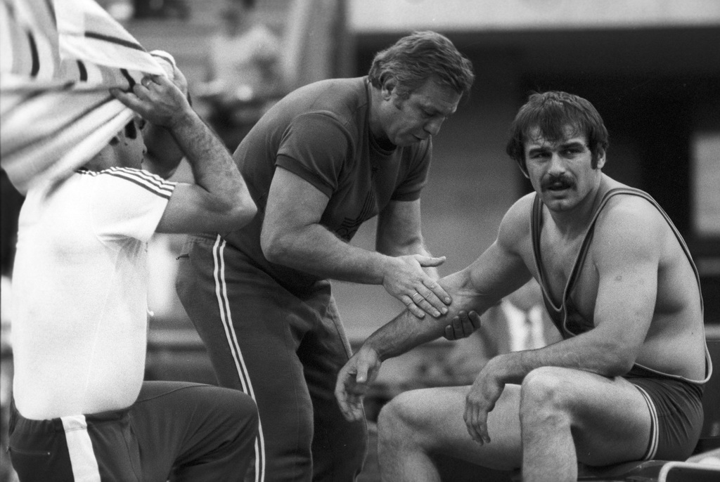 “Wrestler Ilya Mate during a match break”. 1980 Olympic champion in Wrestling freestyle 100 kg category Ilya Mate of the USSR during a match break. XXII Summer Olympics. CSKA Sports Complex in Moscow.